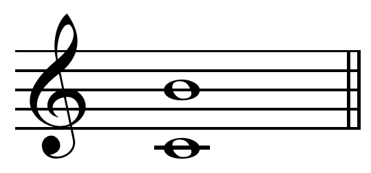 Major seventh on C = B. Just: 15:8 = 1088.27 cents. Equal-tempered: 211/12:1 = 1100 cents. 中文（香港）: C上的大七度